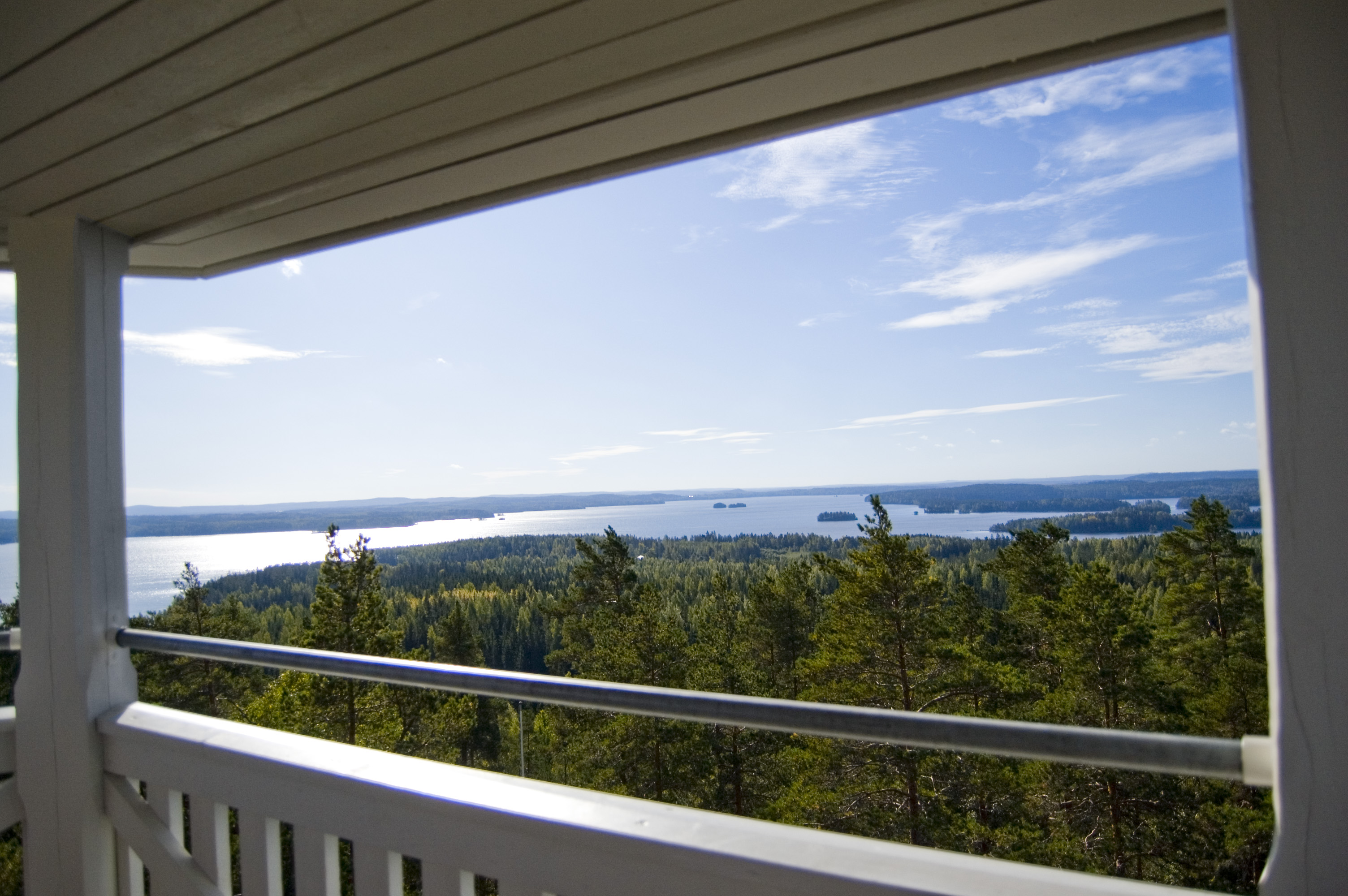 View from Haralanharju sightseeing tower